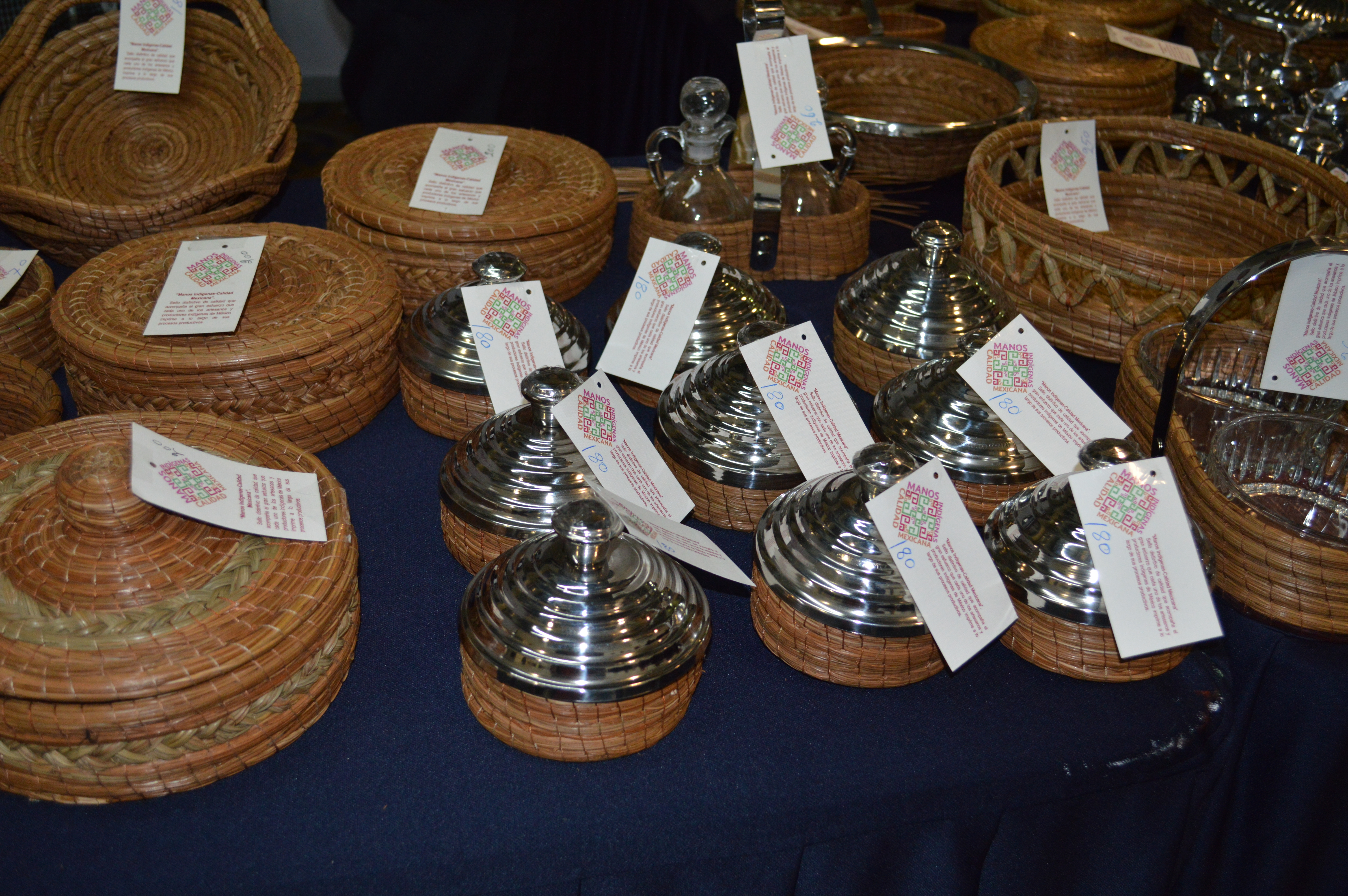 Pine needle baskets from El Oro, State of Mexico at the Expo de los Pueblos Indígenas in Mexico City